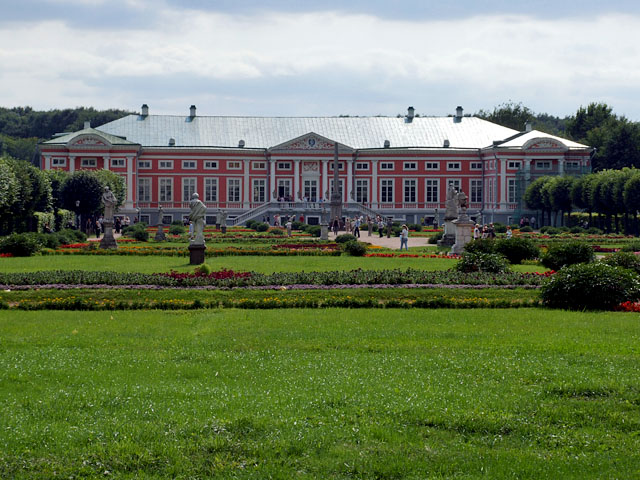 Kuskovo. Moscow.